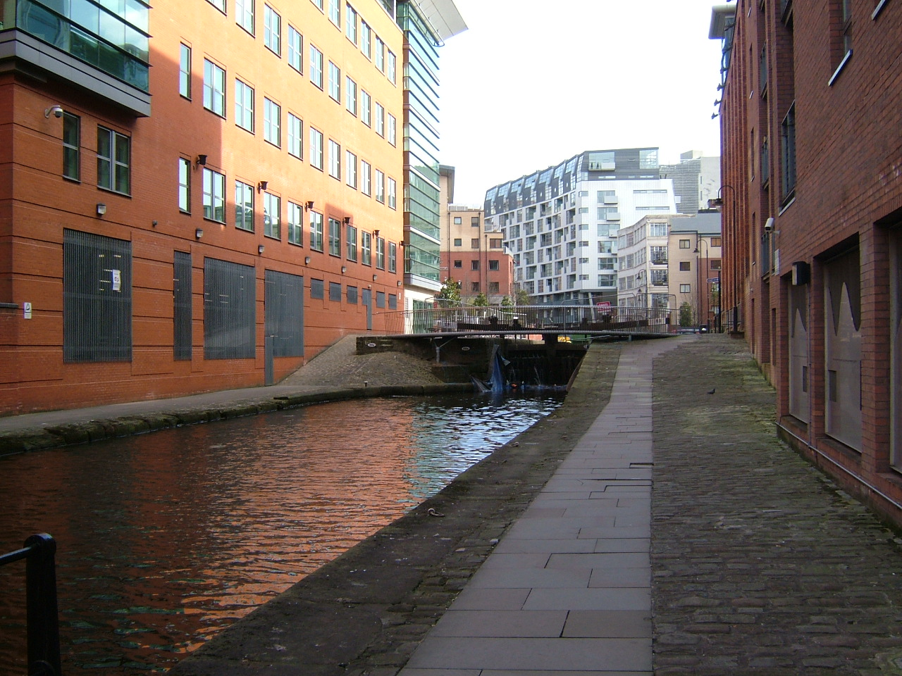 The Rochdale Canal in Manchester built in 1800, passes between the Ashton Canal in Piccadilly and the Bridgewater Canal at Castlefield. The 'Rochdale Nine' locks are 84:Dale St, 85:Piccadilly, 86:Chorlton St, 87:Lock 87, 88:Lock 88, 89:Tib, 90:Albion Mills, 91:Tunnel, 92:Duke's. This section never closed. The junction with Manchester and Salford Junction Canal between ,88 ,89. opened in 1839 and closed in 1922. Looking to 89:Tib Lock.